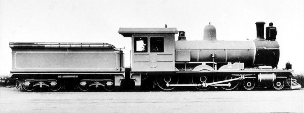 Cape Government Railways 6th Class (4-6-0) no. 286, as built, with Drummond tubes and large cab